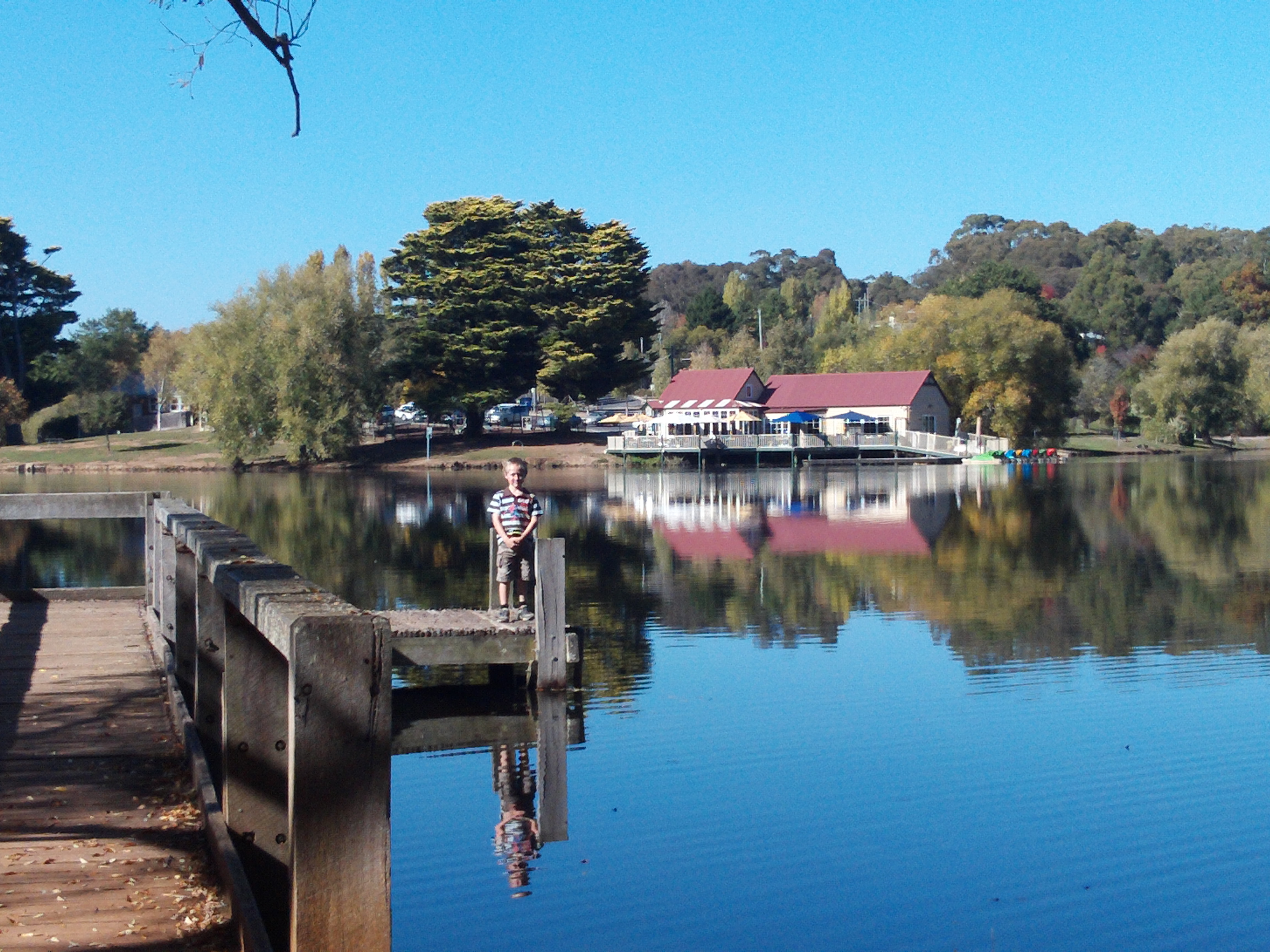 Daylesford Lake Victoria Australia